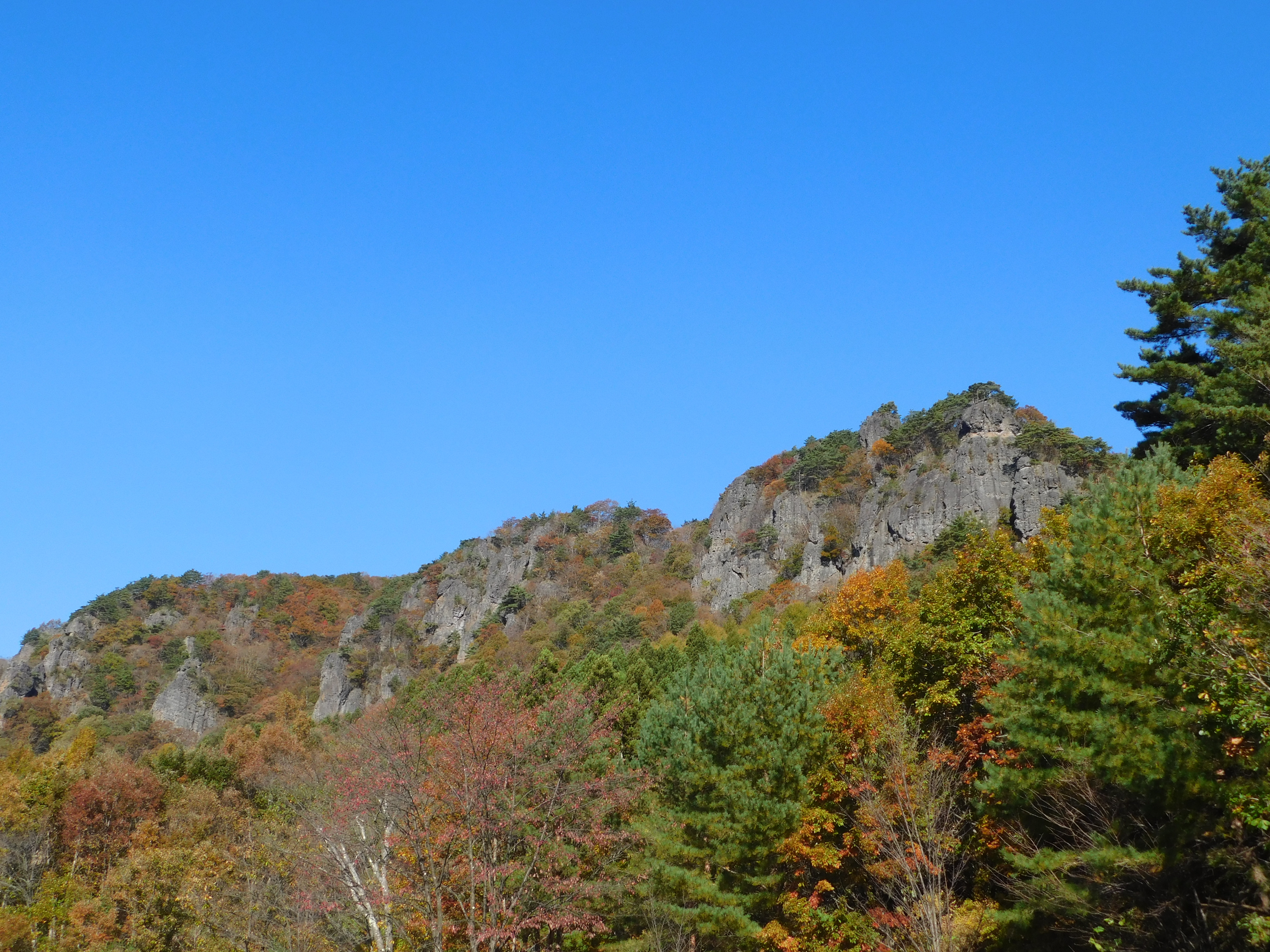 Mount Ryozen in Fall